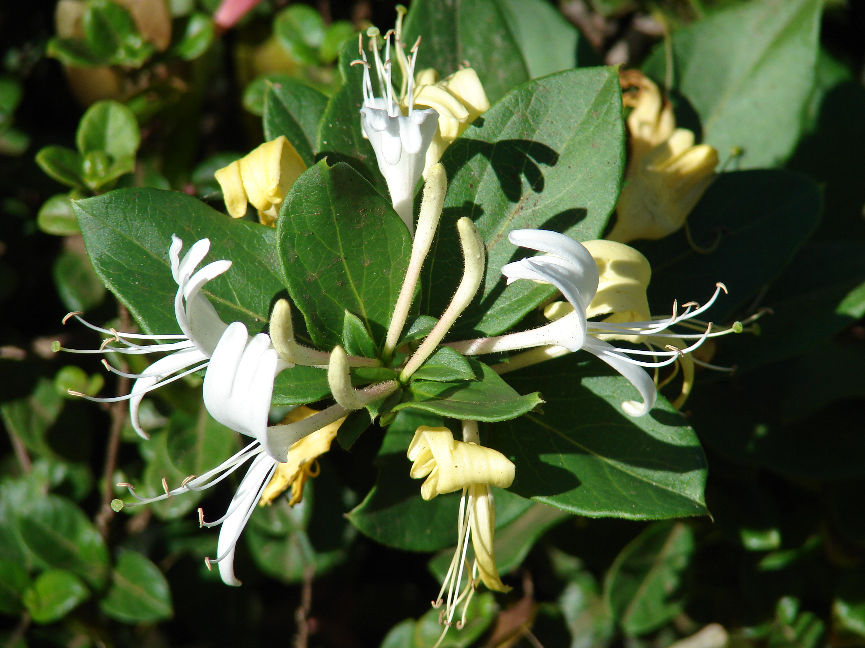 Lonicera japonica (flowers and leaves). Location: Maui, Enchanting Floral Gardens of Kula